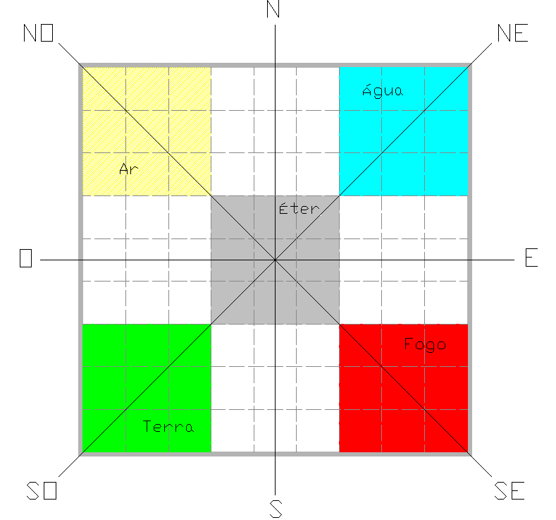 Diagrama esquemático da localização dos cinco elementos.